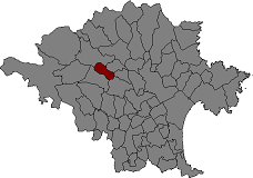 Location of Boadella i les Escaules in Alt Empordà